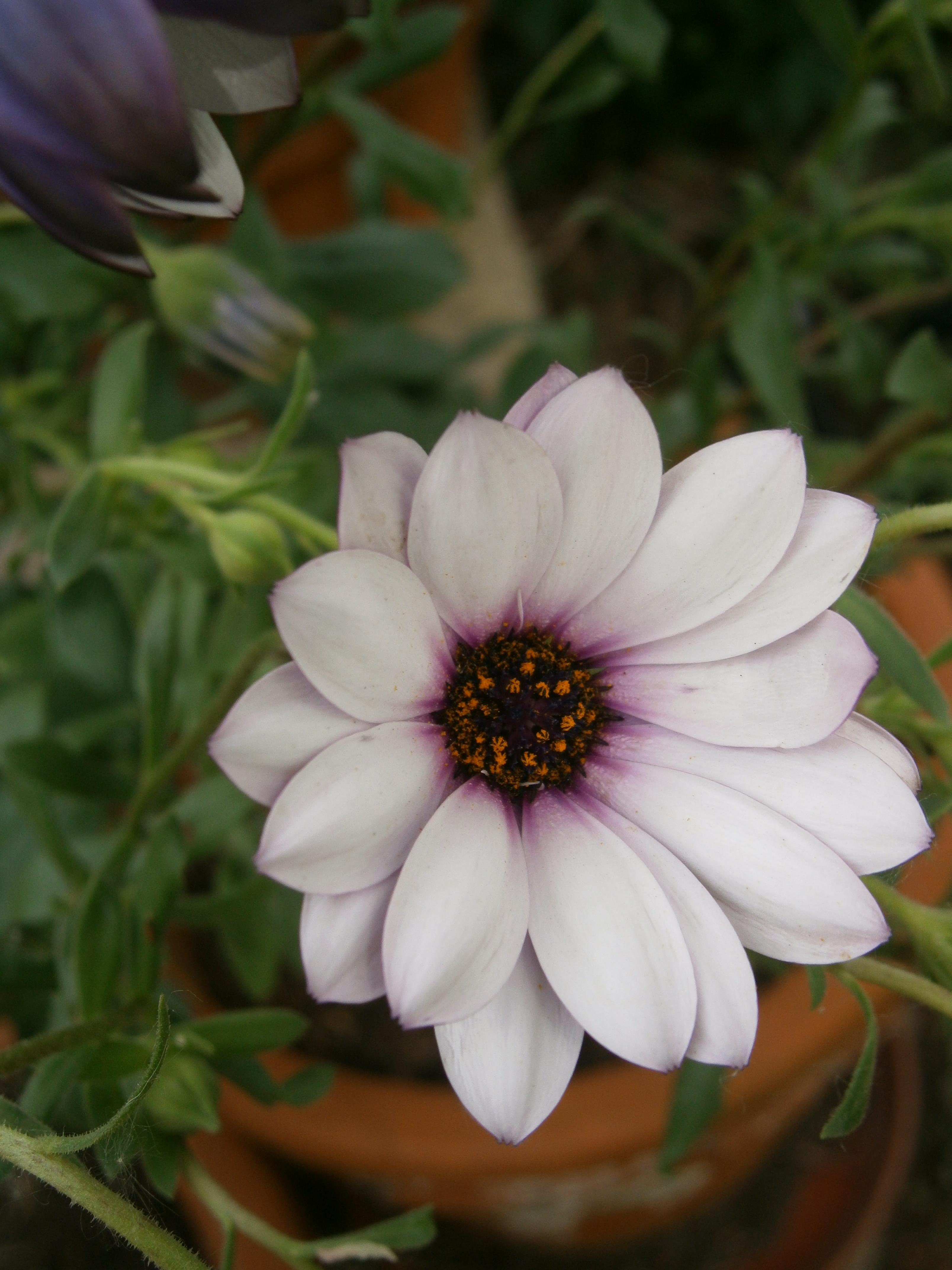 Dimorphotheca pluvialis flower